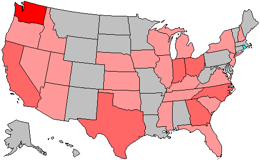 Summary of party change of U.S. house seats in the 1994 House election. Stripes indicate a tie between the gains of two or more parties. Legend: 1-2 Democratic seat pickup 1-2 Republican seat pickup 3-5 Republican seat pickup 6 Republican seat pickup Note: years ending in 2 may have inconsistent results due to redistricting.